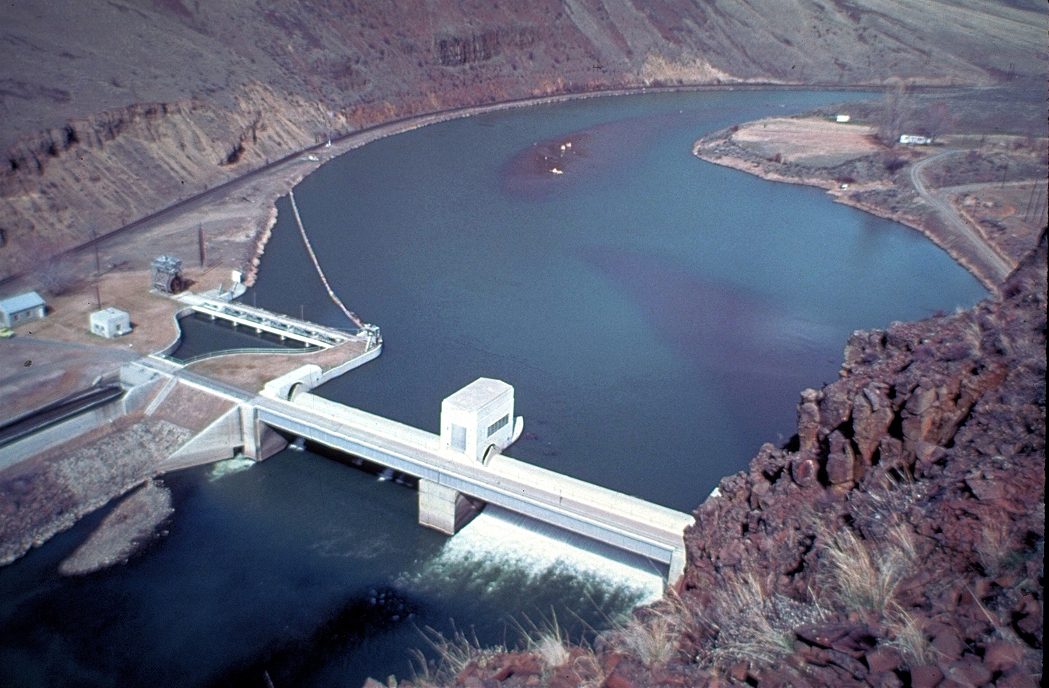 Photo of Roza Dam, as published by the BPA (US Dept of Energy) at